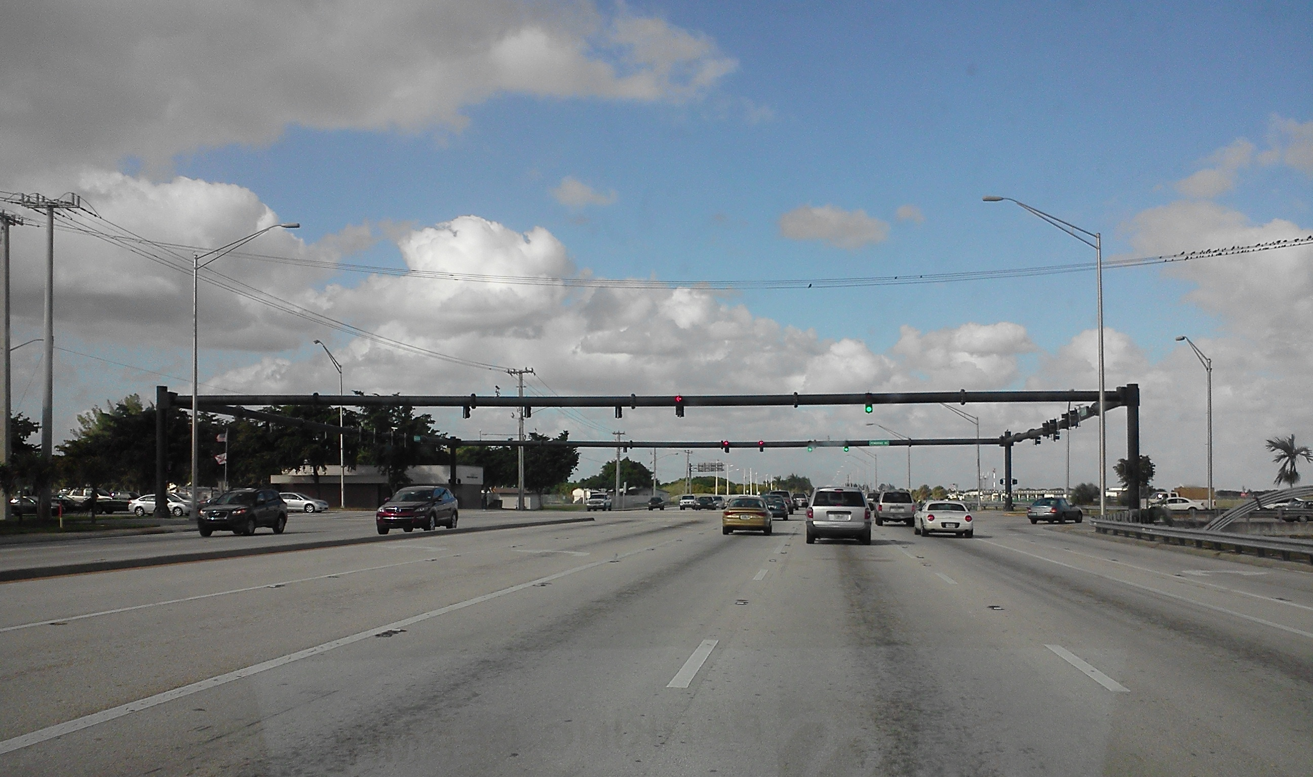 A traffic light at a large intersection in Florida